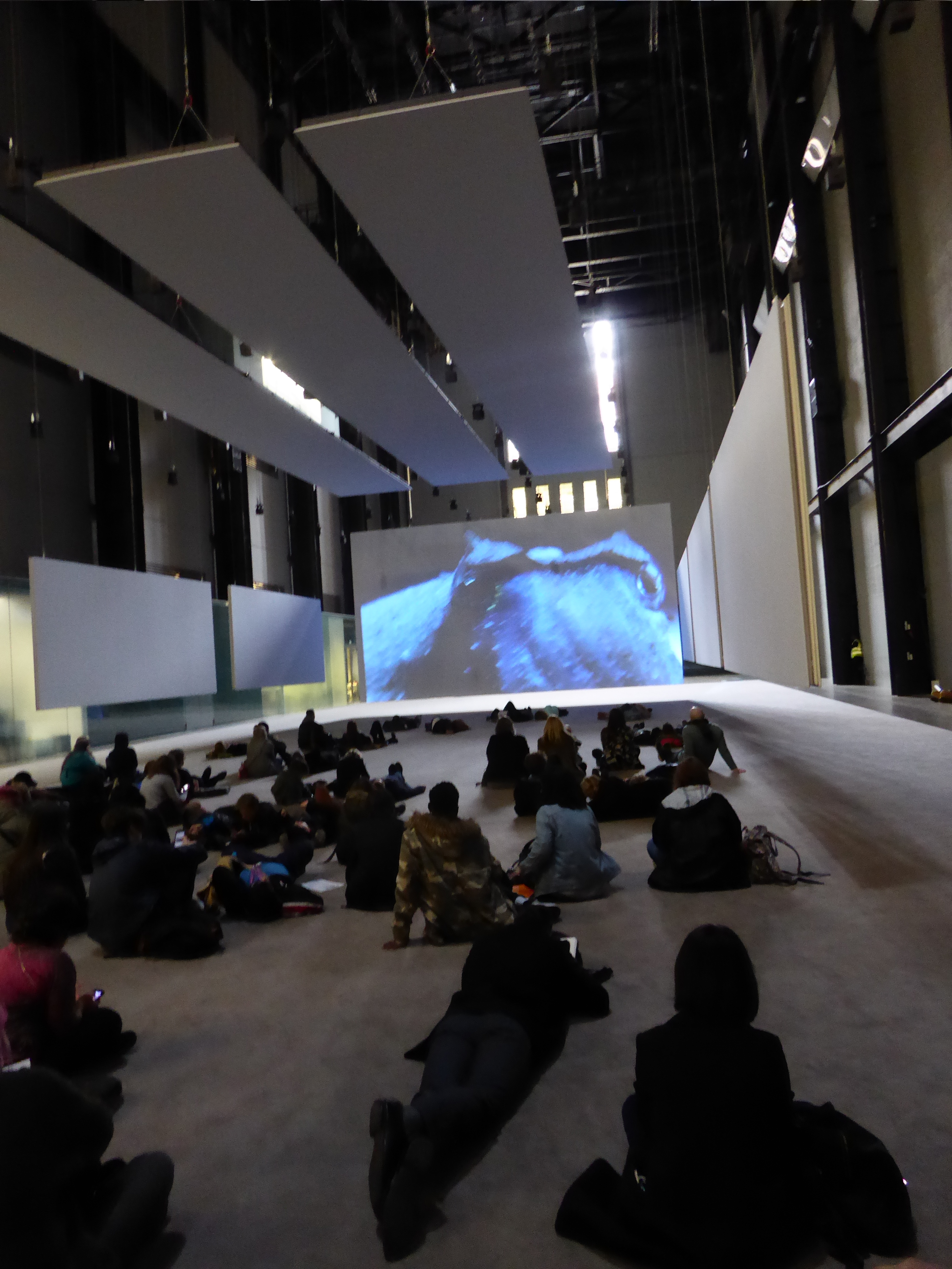 Anywhen by Philippe Parreno, Turbine Hall, Tate Modern, Bankside, London, November 2016